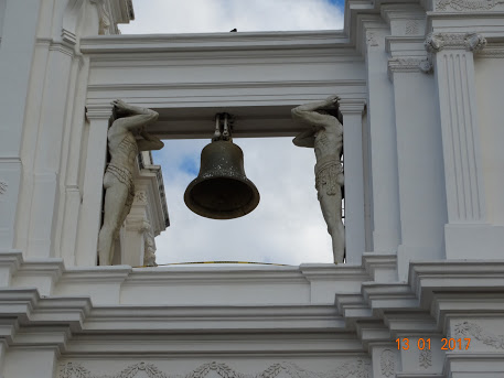 Leon (Nicaragua), the cathedral (datail)